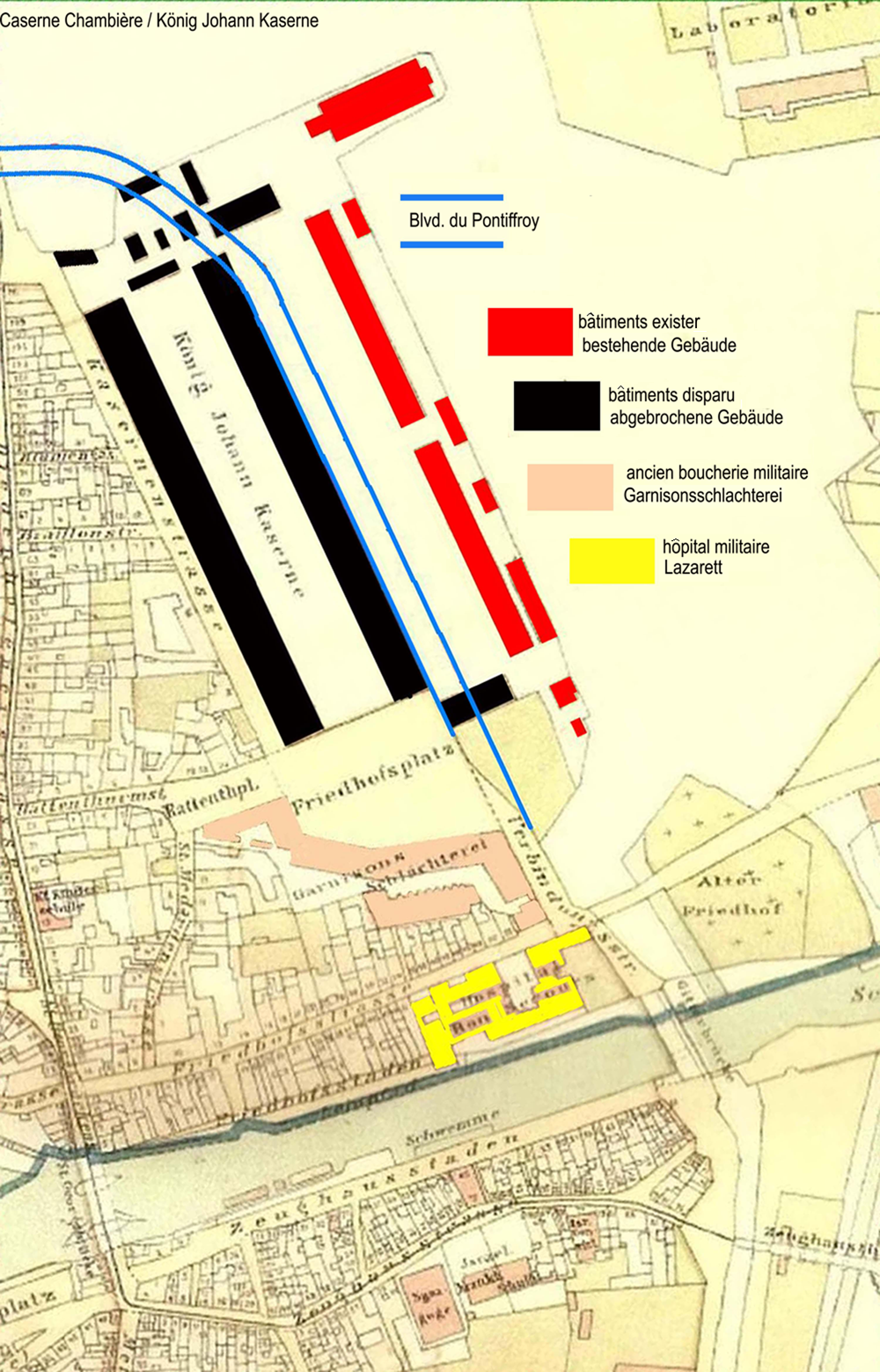 Plan of the König Johann Kaserne / Caserne Chambière in Metz with the today's situation